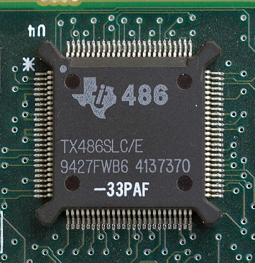 CPU Texas Instruments TX486SLC/E (=Cyrix Cx486SLC/e).